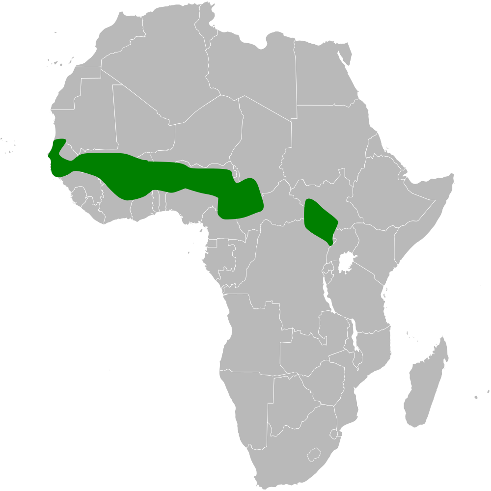 Anthoscopus parvulus distribution map; using BlankMap-Africa.svg, based on